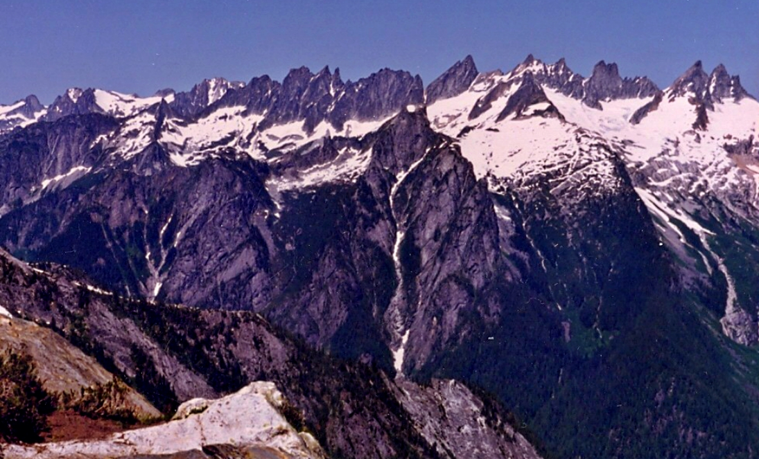 The Picket Range, a remote sub-range of the Cascade Range in North Cascades National Park seen from Trappers Peak which is a day-hike to reach. Peaks annotated. July 1990